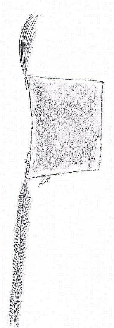 Lombu Lombu